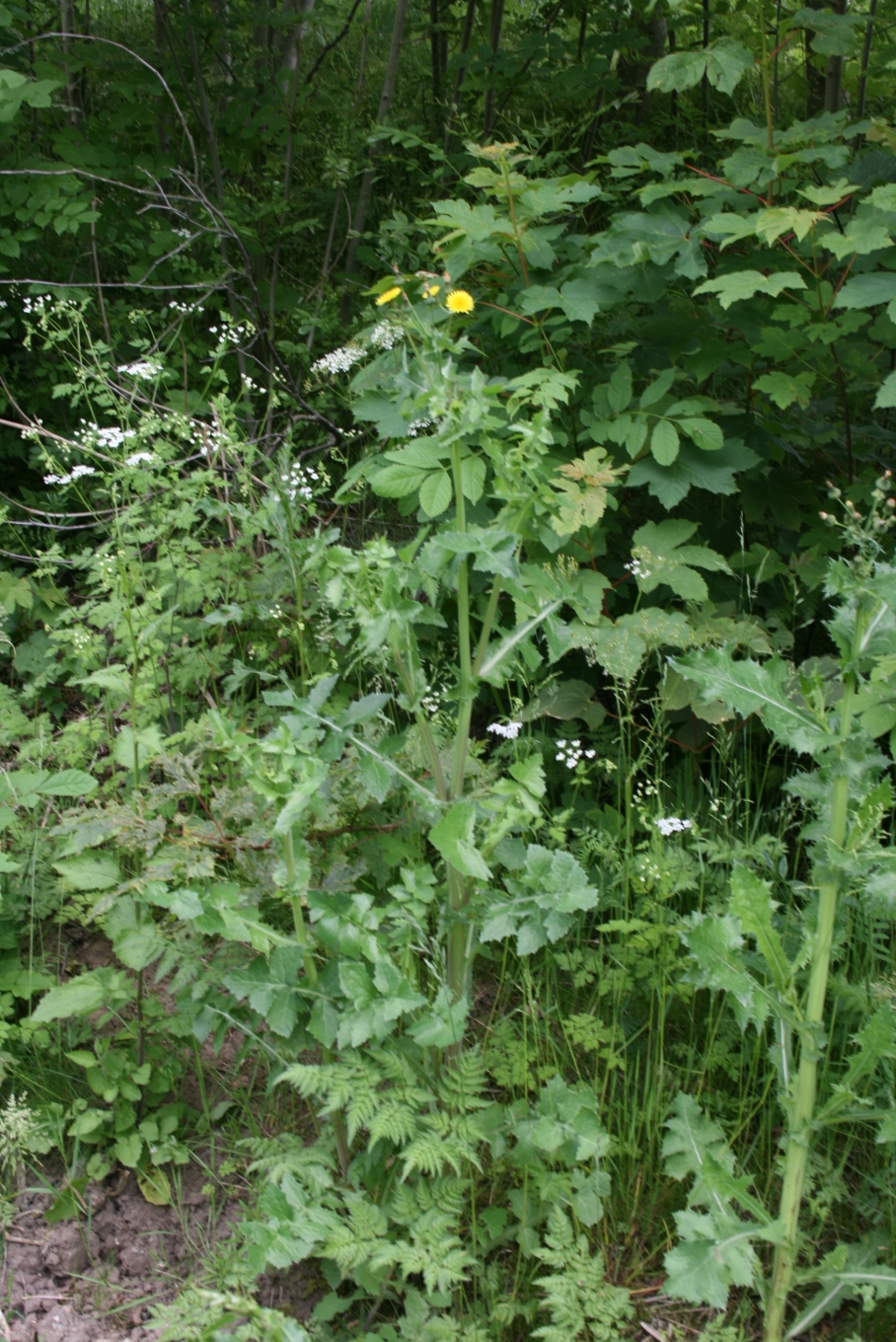 Sonchus oleraceus: Habit